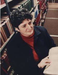 Sheena Blackhall, Scots Poet, Makar of Aberdeen